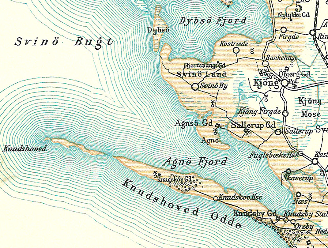 Map of Præstø County in Denmark